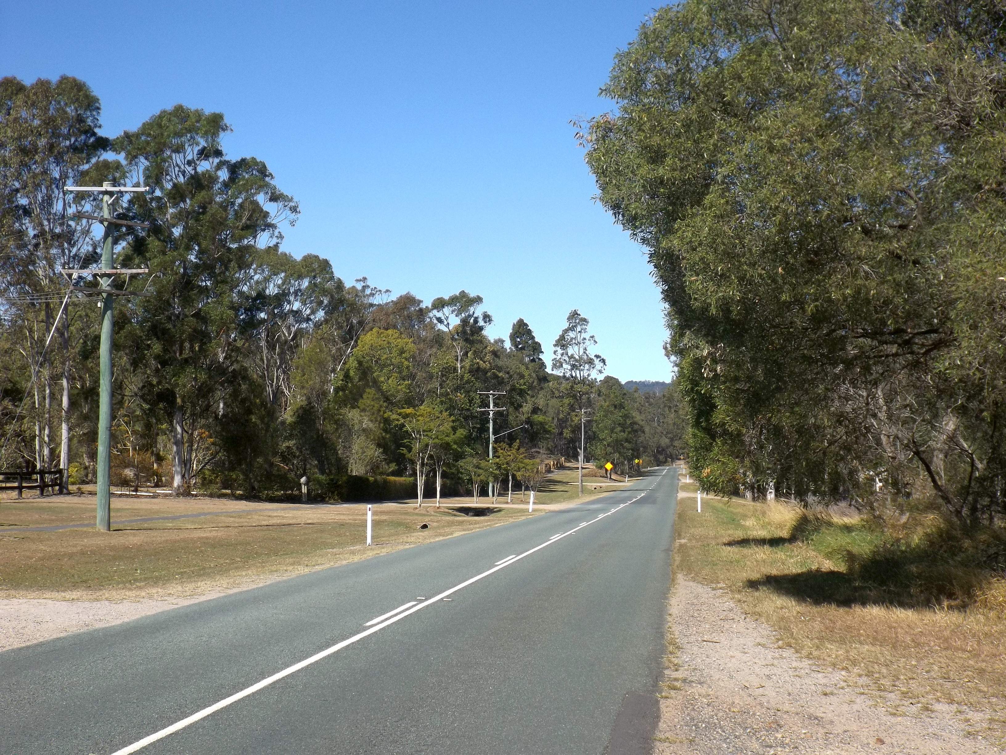 Photo of Mount Mee Road at Delaneys Creek, Moreton Bay Region, Queensland, Australia.